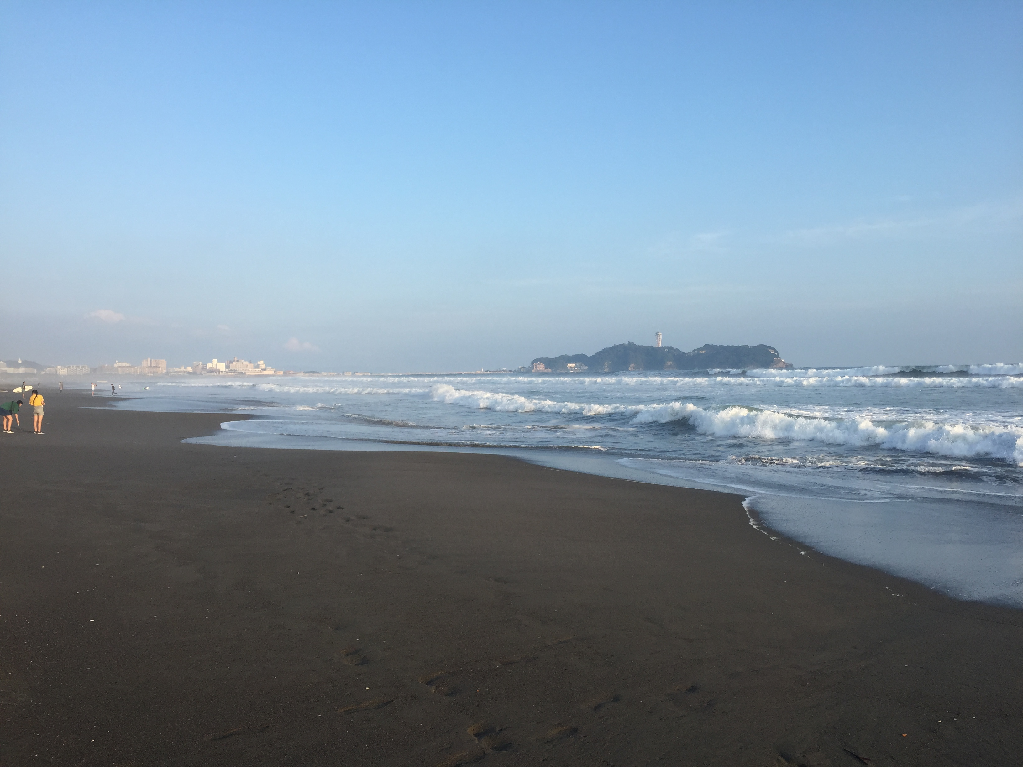 ENOSHIMA Island seen from KUGENUMA KAIGAN (or KUGENUMA Beach), KANAGAWA Prefecture, Japan.